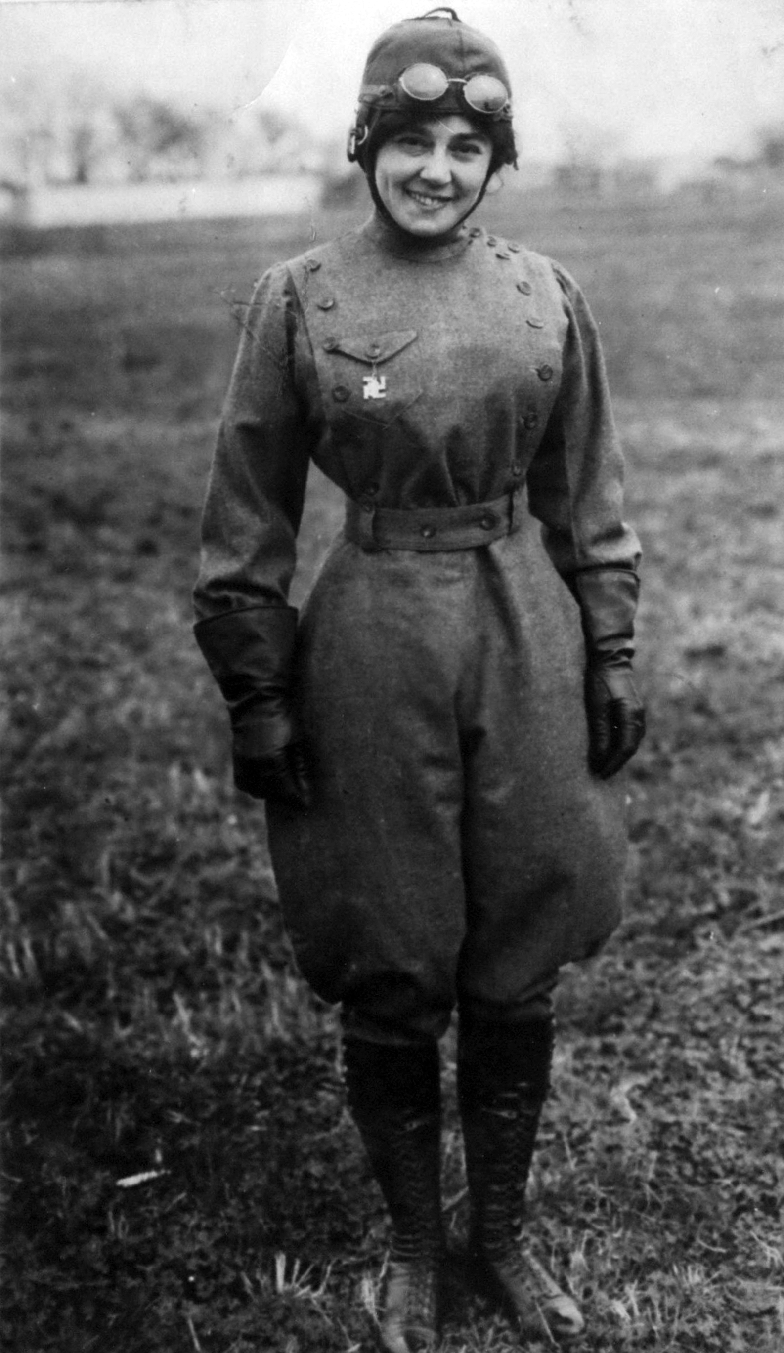 Pioneering American aviatrix Matilde E. Moisant (September 13, 1878 – February 5, 1964) in 1912. She was the second woman in the United States to earn a pilot's license.